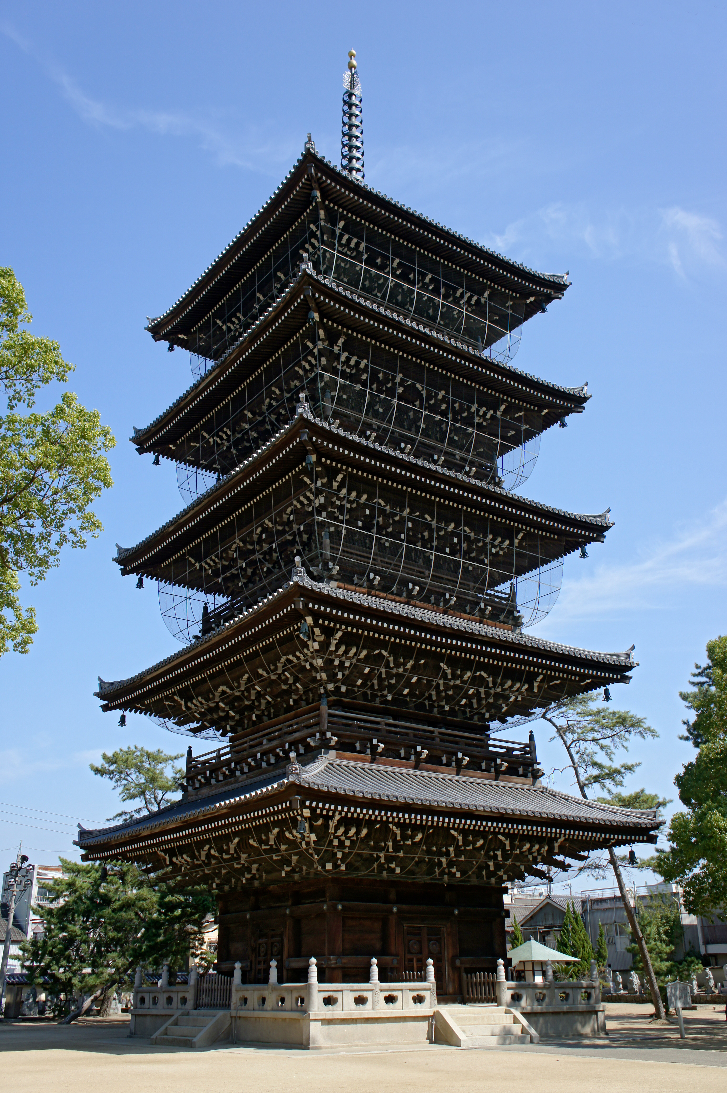 Five-storied Pagoda of Zentsu-ji in Zentsuji, Kagawa prefecture, Japan.